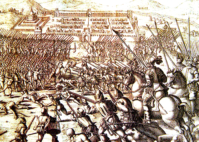 Spanish picture about the cusco battle.